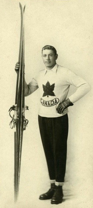 Bob Lynburne